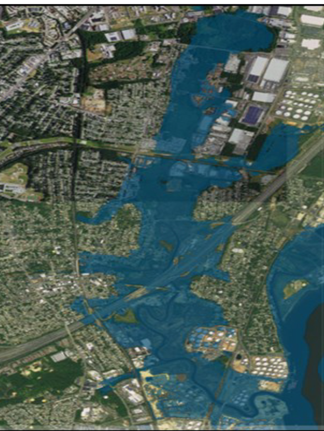 Woodbridge, New Jersey, area inundated by Woodbridge River after Hurricane Sandy (Center blue area) woodbridge river